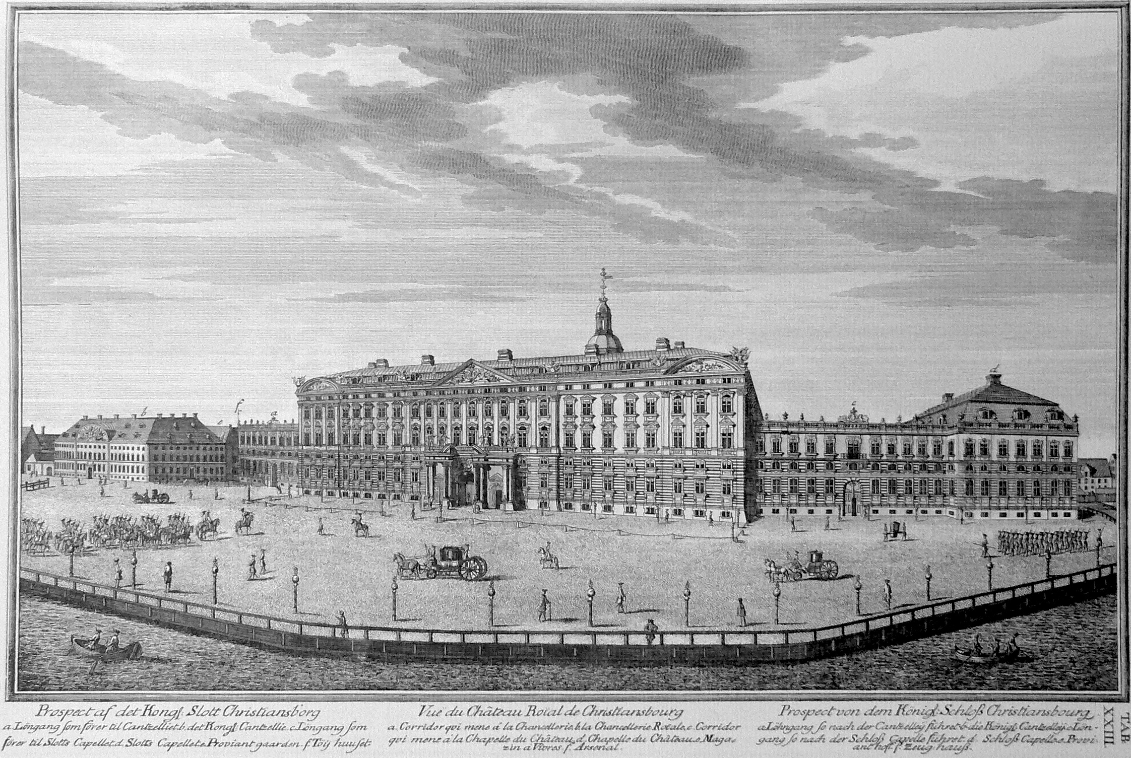 Prospect of Christiansborg Palace a - passage to the chancellory b - the royal chancellory c - passage to the royal chapel d - the royal chapel e - supplies storage f - arsenal